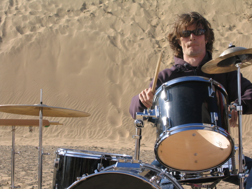 Daniel Buess drumming at the gobi desert Mongolia version 2